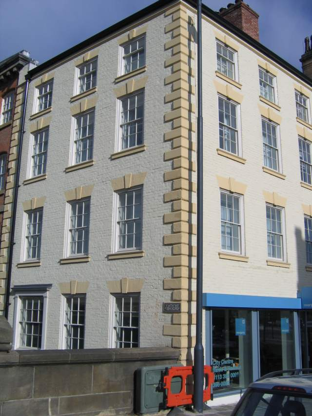 Building in which the Band of Hope was founded in 1847. Plaque says "In 1847 at a meeting on these premises the Band of Hope Movement was formed. It's [sic] title being suggested by the Reverend Jabez Tunnicliffe, a prominent Leeds temperance worker." --MaxHund 23:53, 21 March 2006 (UTC)